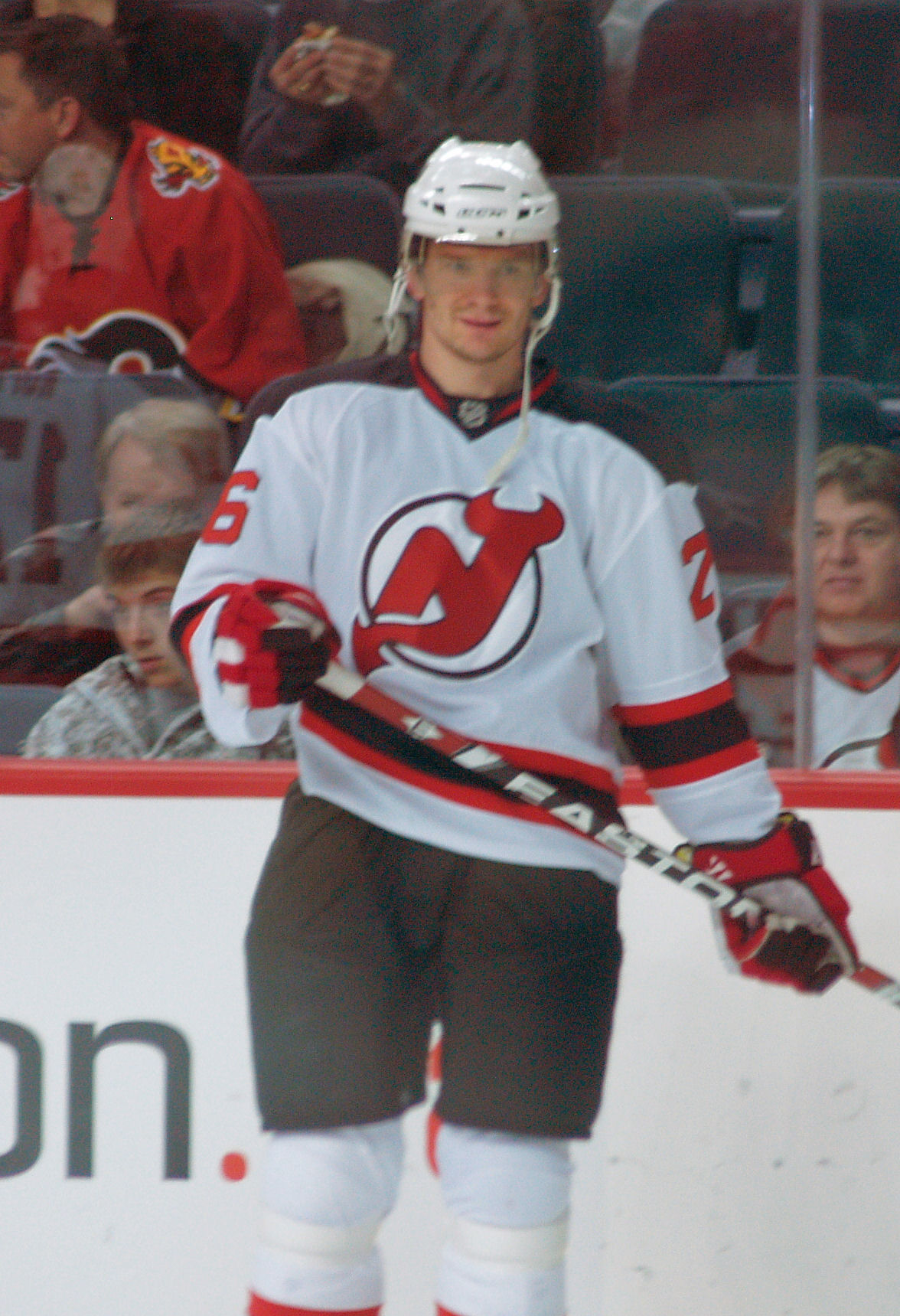 Patrik Elias of the New Jersey Devils in the pregame warmup in Calgary